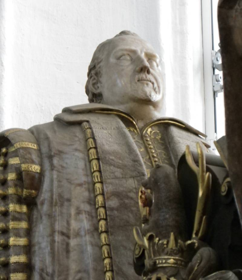 Szymon Bahr (Simon Bahr) on his tomb in St. Mary's Church, Gdańsk (sculpture Abraham van den Blocke, 1614-1620)